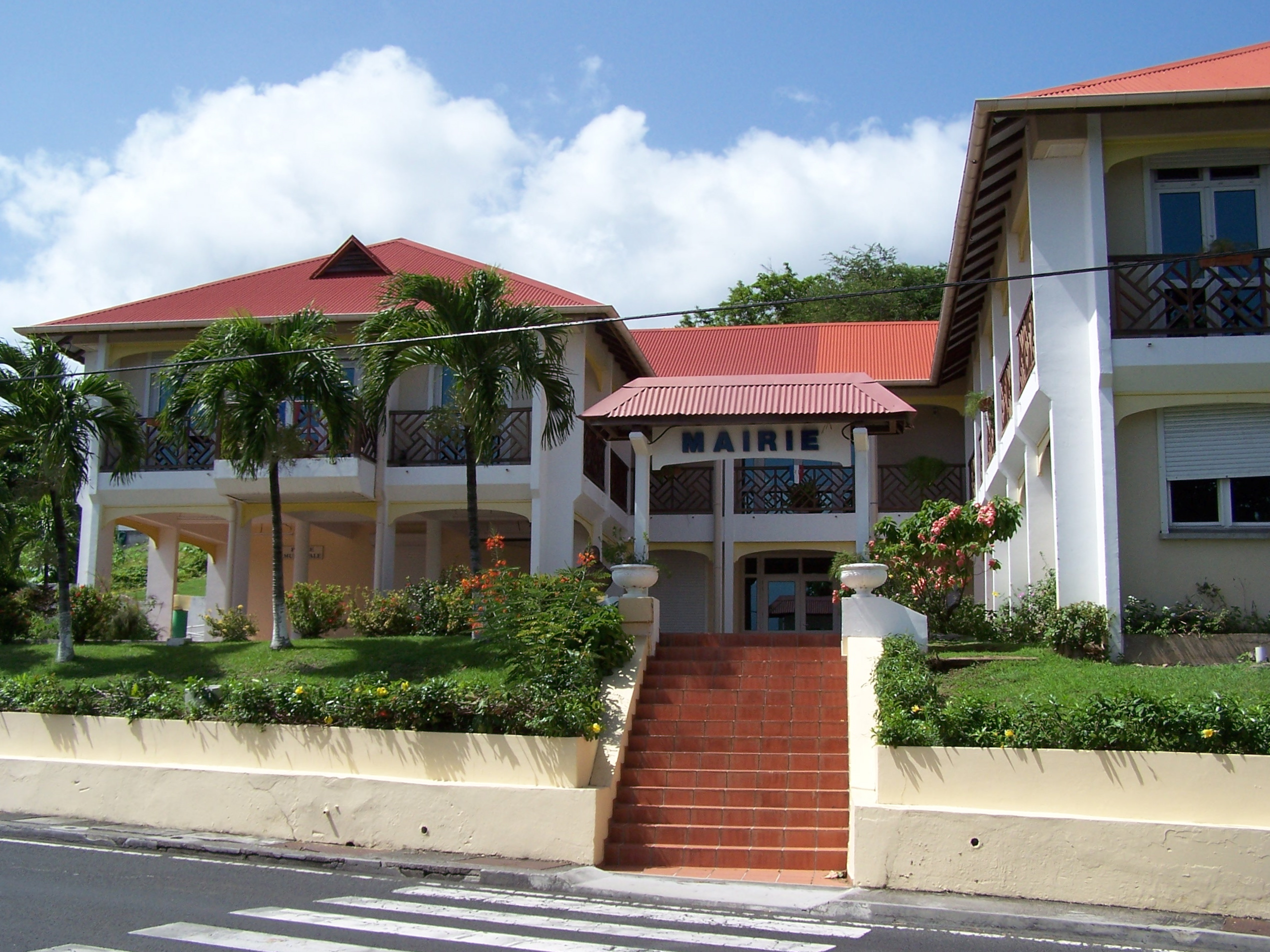 La mairie de Vieux-Fort